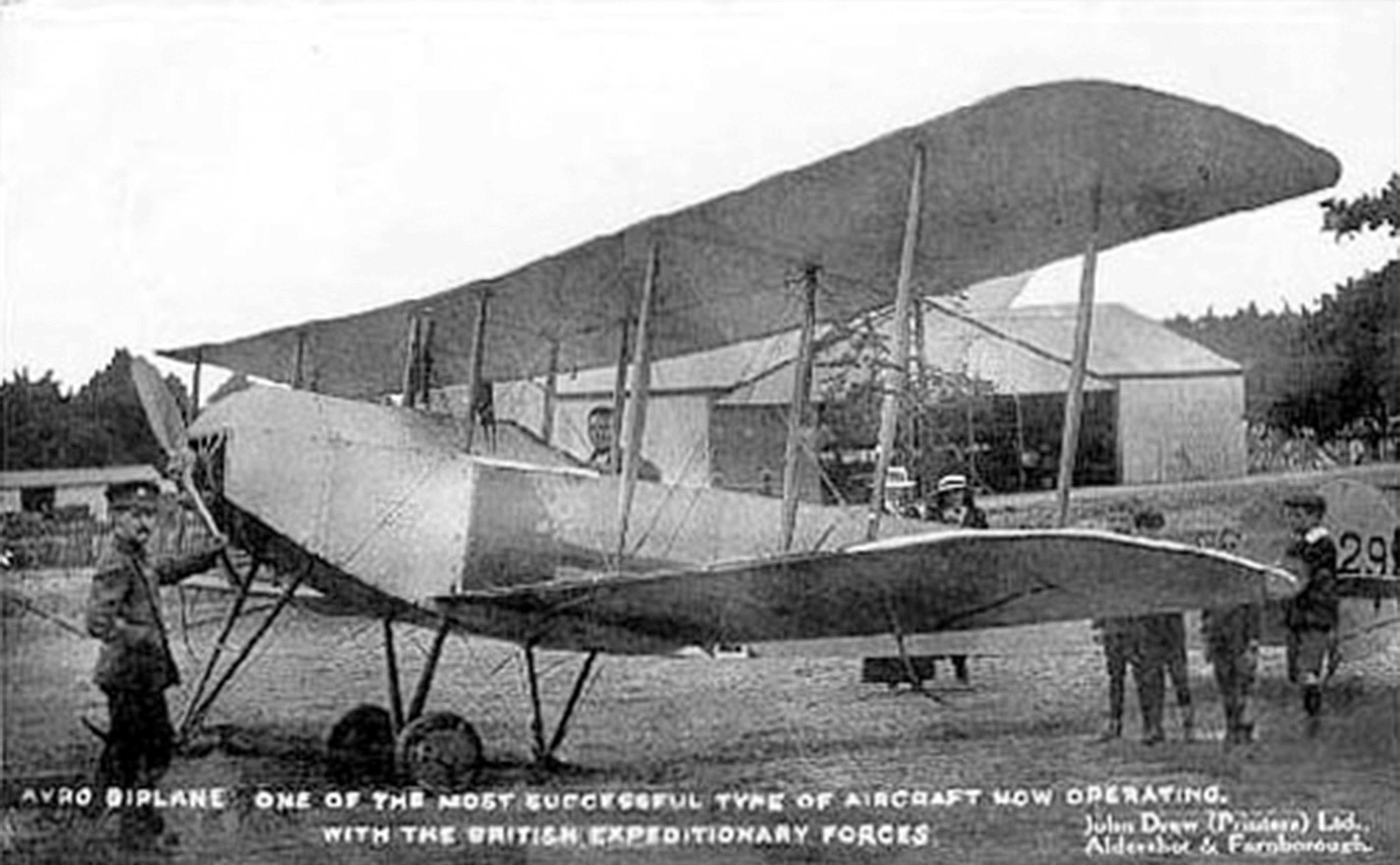 The Avro Type E, Type 500, and Type 502 made up a family of early British military aircraft, regarded by Alliott Verdon Roe as his firm's first truly successful design. It was a forerunner of the Avro 504, one of the outstanding aircraft of the First World War.